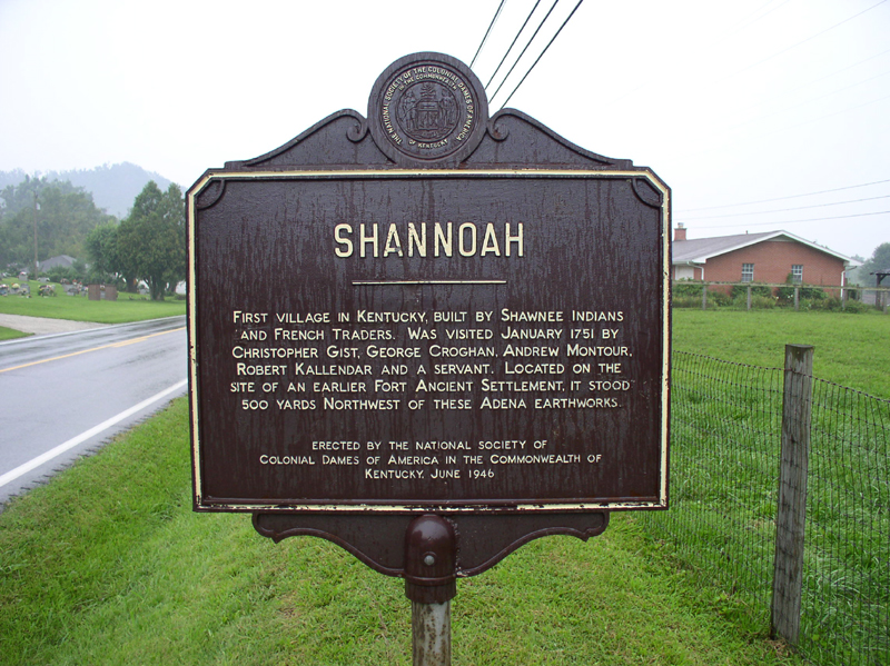 Historical marker located at Lower Shawneetown near South Portsmouth, Kentucky in Greenup County. Inscription: Shannoah First village in Kentucky built by Shawnee Indians and French traders. Was visited January 1751 by Christopher Gist, George Croghan, Andrew Montour, Robert Kallendar and a servant. Located on the site of an earlier Fort Ancient settlement, it stood 500 yards northwest of these Adena earthworks. Erected by the National Society of Colonial Dames of America in the Commonwealth of Kentucky. June 1946